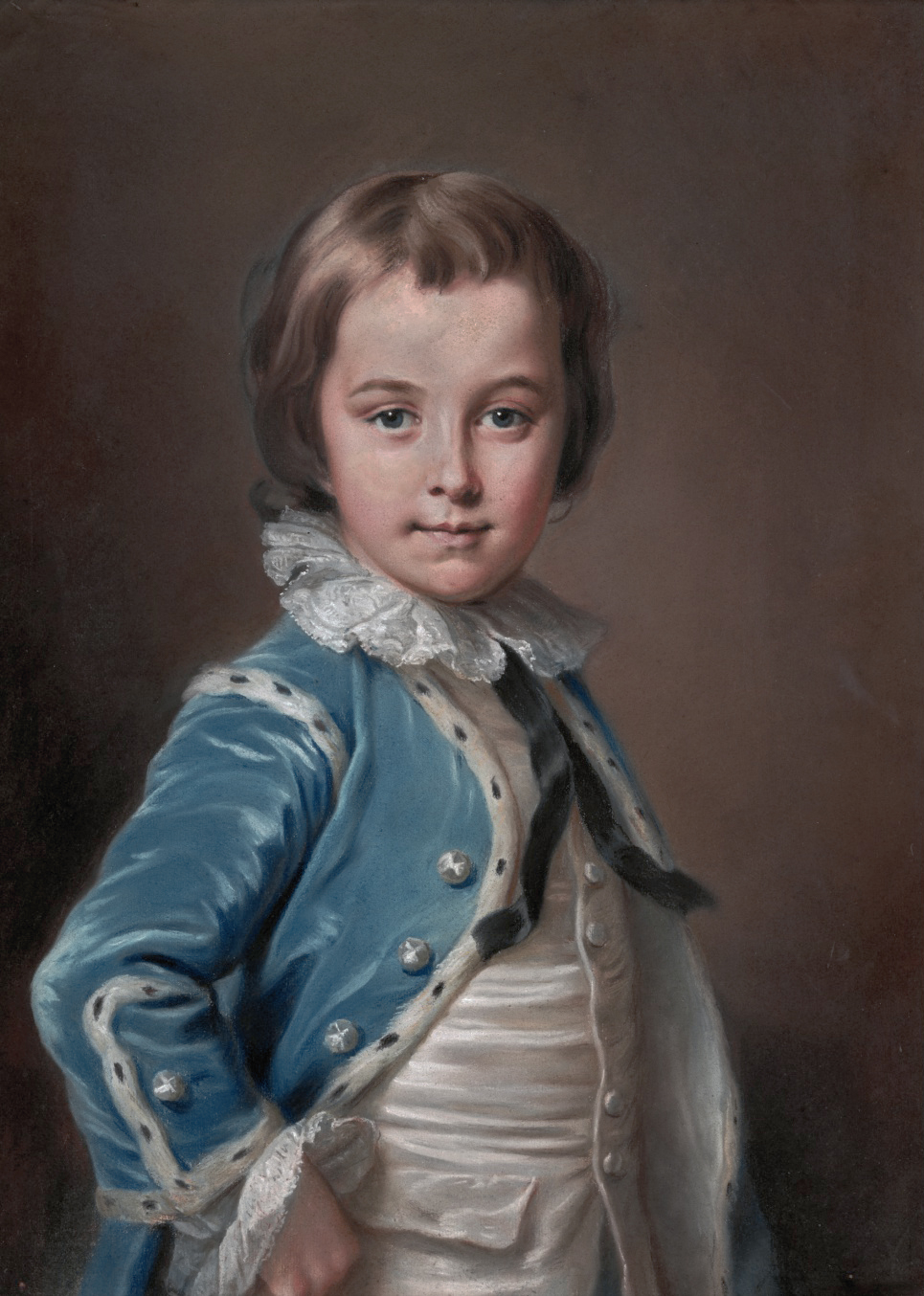 Henry Fiennes Pelham-Clinton, Earl of Lincoln (1750-1778) pastel 60 x 44 cm late 1750s